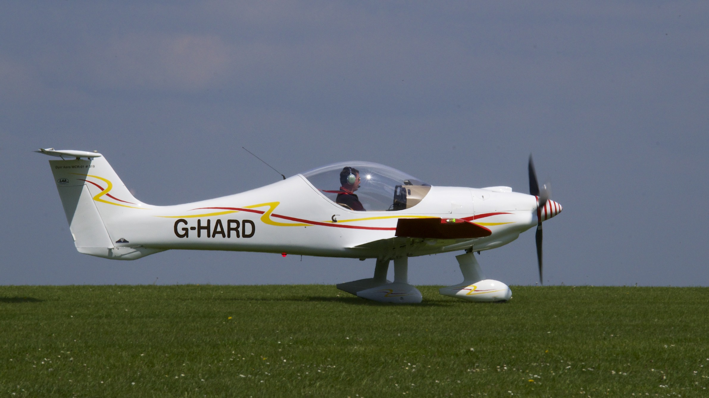 Taken just before I went on holiday. I had a go using the NEXF3 and SEL55210 lens. It worked quite well I think although not as fast to focus as the A57 and a viewfinder would have made it much easier.